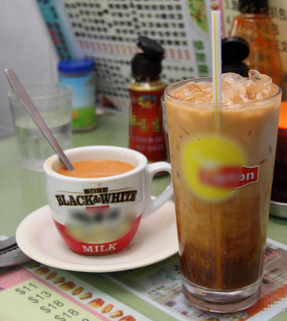 Hot and Cold Milk Tea in Hong Kong Style.